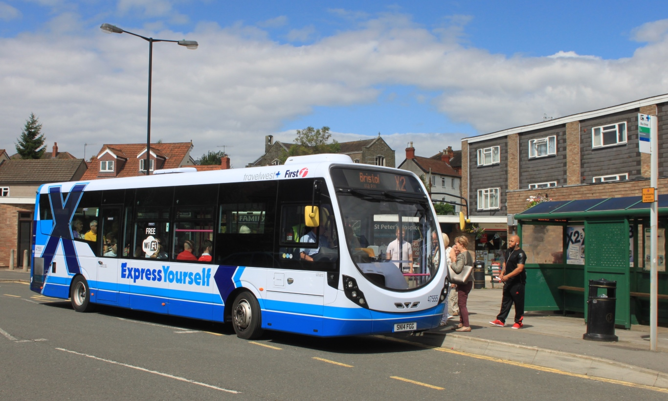 The X2 Portishead to Bristol bus calls at Pill. This Wright StreetLite is 47555 in the First Somerset & Avon fleet and carries registration SN14FGG.